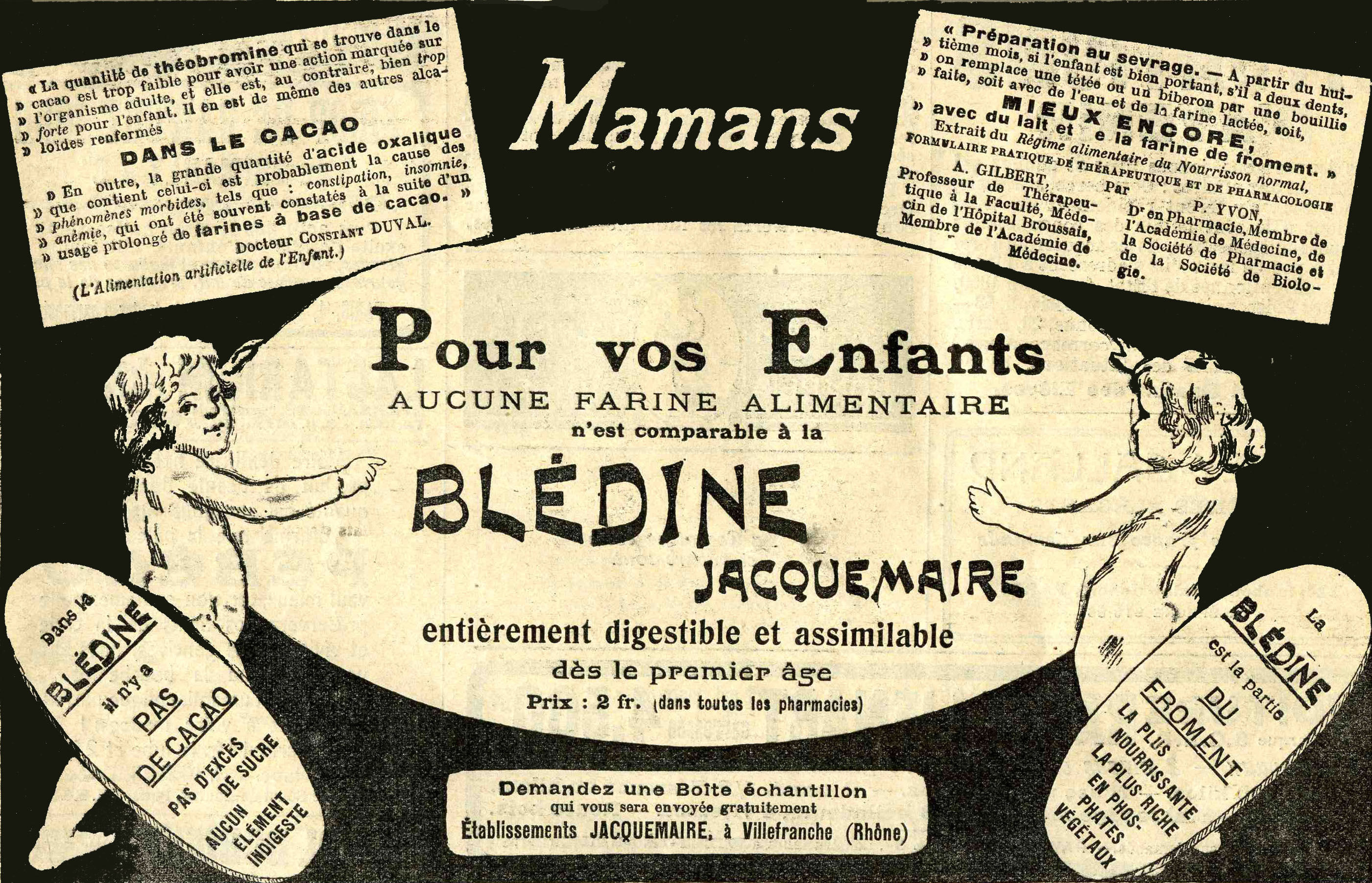 1910 advertisement for Blédine